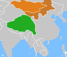 Request showing ancient Tibet and Mongolia during the sixteenth century.